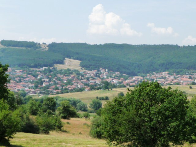 Panoramic view from Gabra village 2009